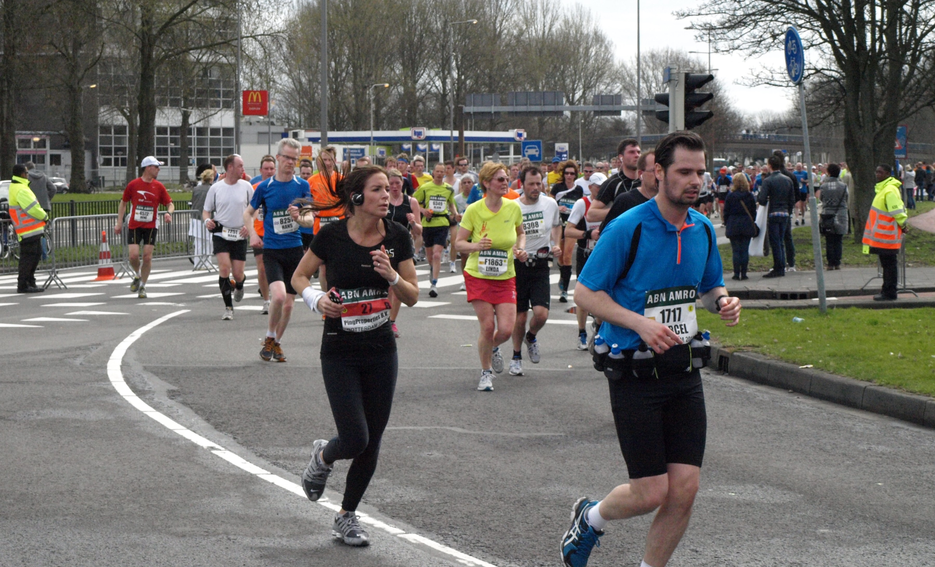 Rotterdam Marathon 2013, corner Zuiderparkweg / Vaanweg (16 km)